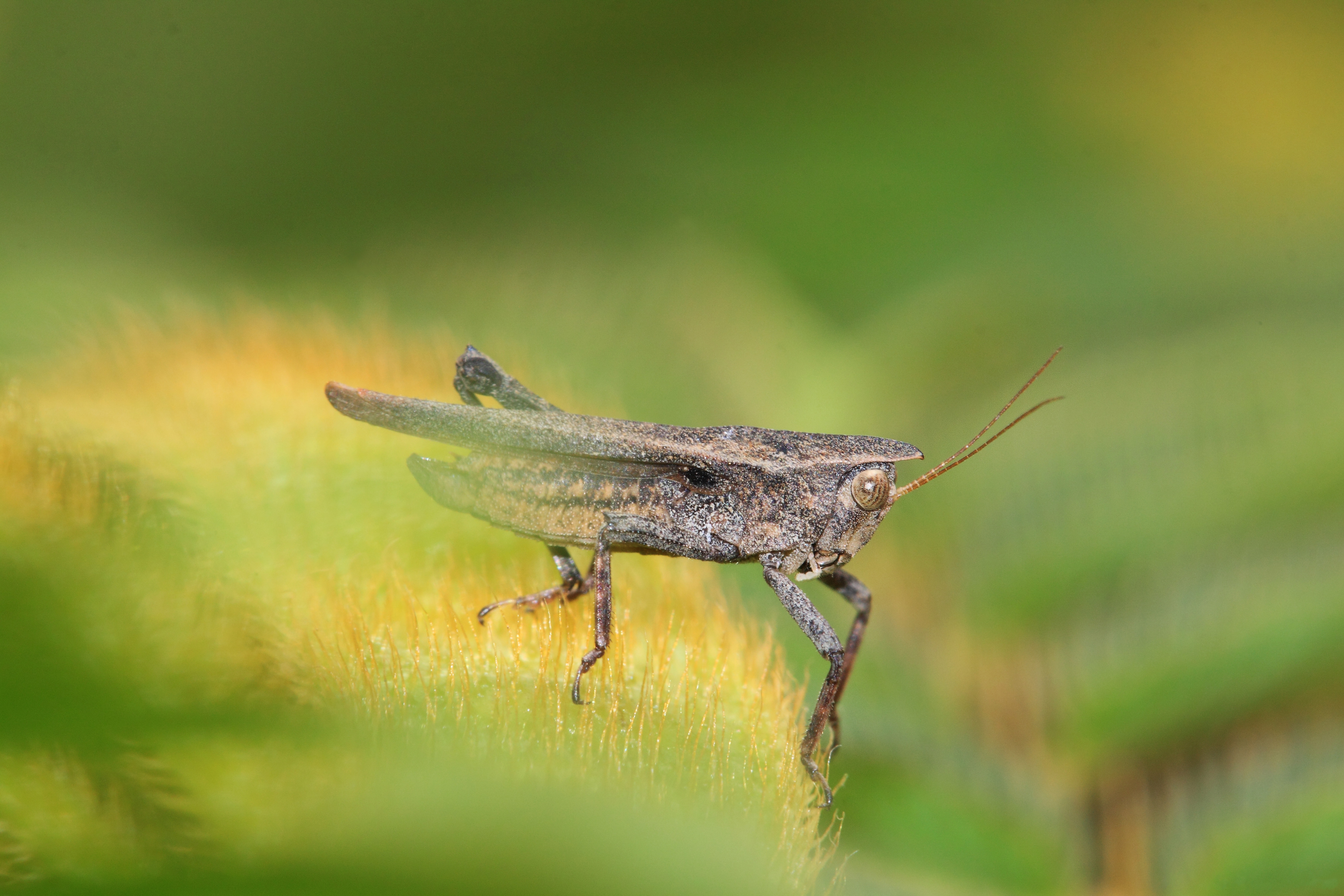 This Pygmy grasshopper (♀ ?) sits on the fruits of Mimosa pudica (Fabaceae), an pantropical invader. Phylum: Arthropoda (arthropods, Gliederfüßer) Subphylum: Hexapoda BLAINVILLE, 1816 Class: Insecta LINNAEUS, 1758 (insects, Insekten) Subclass: Pterygota GEGENBAUR, 1878 (Fluginsekten) Infraclass: Neoptera MARTYNOV, 1923 (Neuflügler) Order: Orthoptera OLIVIER, 1789 (grasshoppers, crickets and katydids, Heuschrecken) Suborder: Caelifera (short-horned grasshoppers, Kurzfühlerschrecken) Superfamily: Tetrigoidea SERVILLE, 1838 Family: Tetrigidae SERVILLE, 1838 (pygmy grasshoppers, Dornschrecken) Subfamily: Batrachideinae BOLIVAR, I., 1887 Genus: Saussurella BOLIVAR, I., 1887 Saussurella cornuta HAAN, 1842 [det. Josip Skejo“, 2014, based on this photo] Indonesia, W-Java, Tangerang: BSD (opposite Teraskota Mall), 45m asl., 21.10.2010 Before "the development" by Sinar Mas had taken place, patches of lowland rainforest, Kampungs (villages) and gardenns lined the river of Cisadane. (IMG_6134)